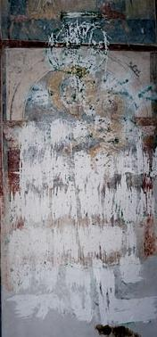 Icon of Virgin with Christ in Matejče Monastery, Macedonia, after destruction by albanians.